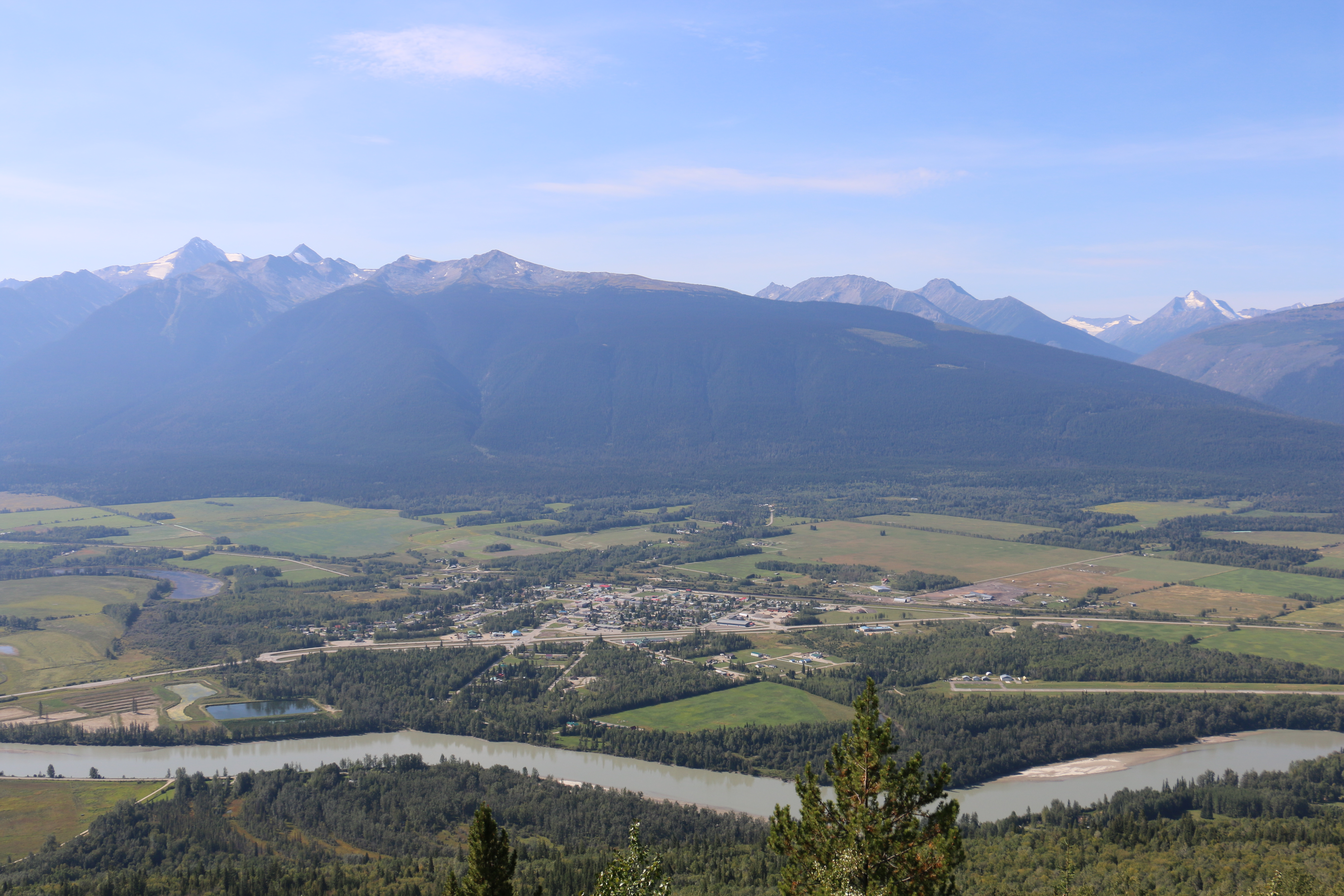 The community of McBride, in the Robson Valley of British Columbia. The upper Fraser River visible in foreground, and the Cariboo Mountains of the Columbia Mountains in background.